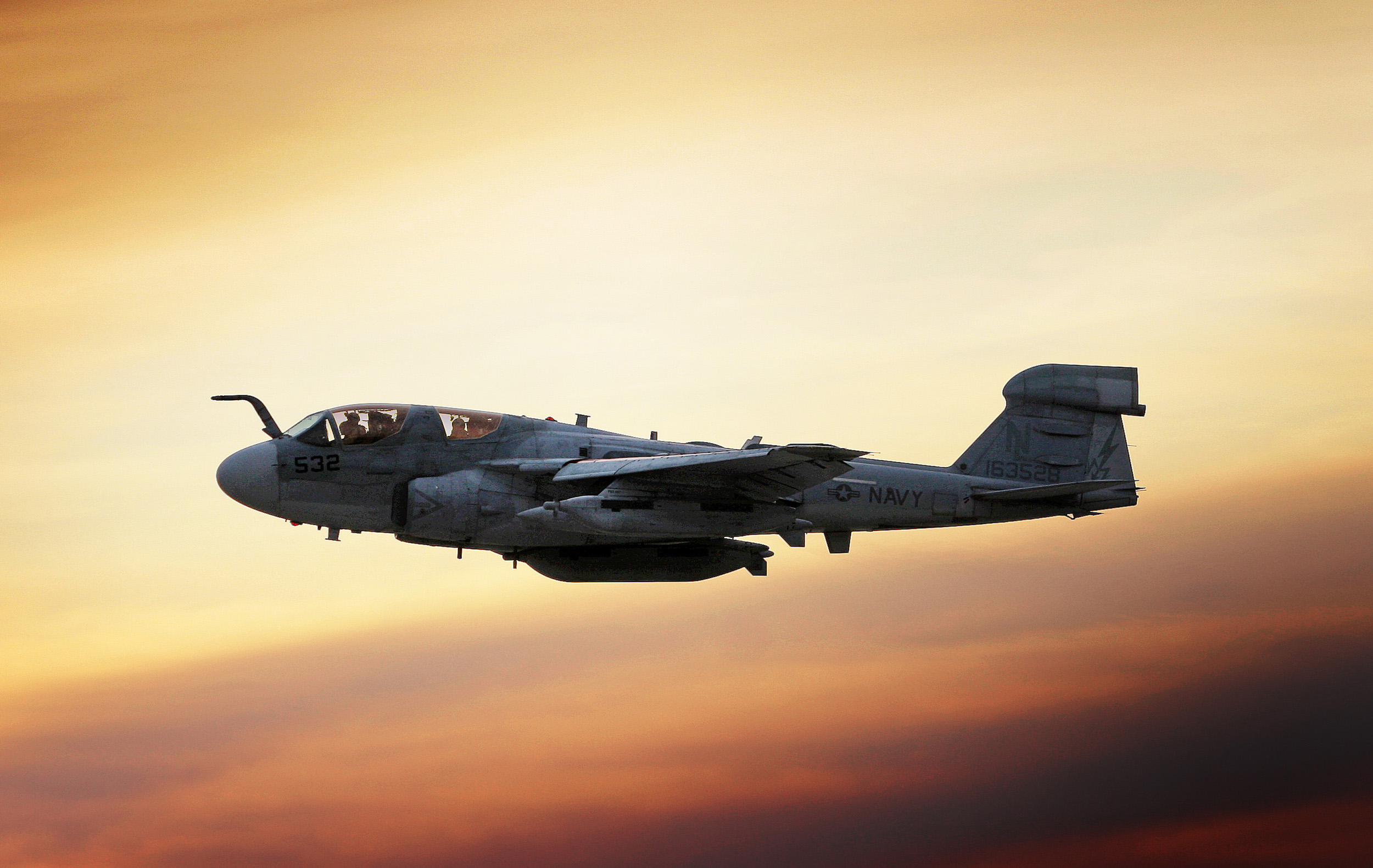 A Navy EA-6B Prowler takes off at dawn from Bagram Air Field, Afghanistan, Nov. 7. (U.S. Air Force photo by Lt. Col. Craig Wells)(Released)